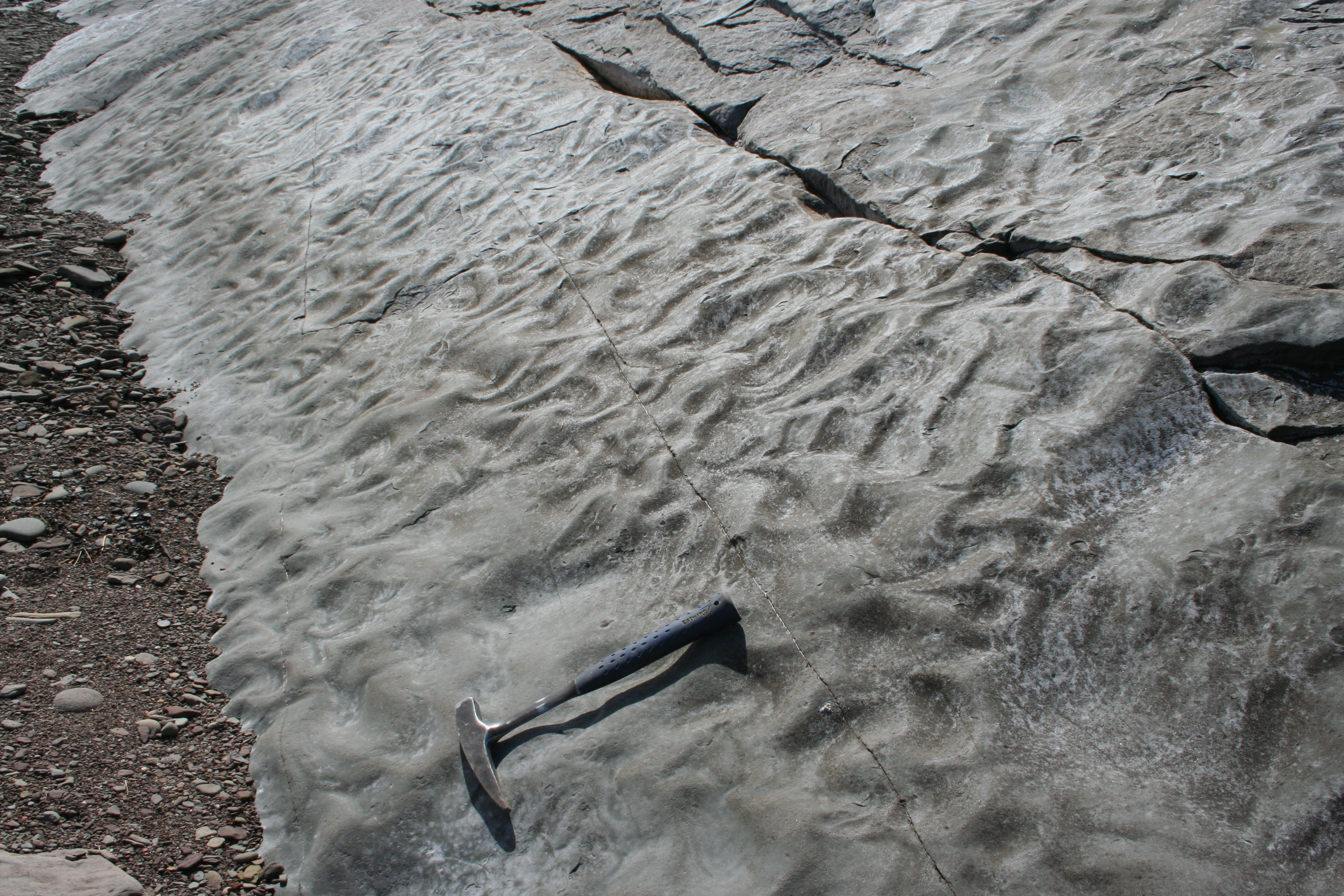 Oblique bedding plane view of three-dimensional ripples preserved on the surface of a bed of sandstone, Little River Formation (Pennsylvanian), Cumberland Basin, Nova Scotia.